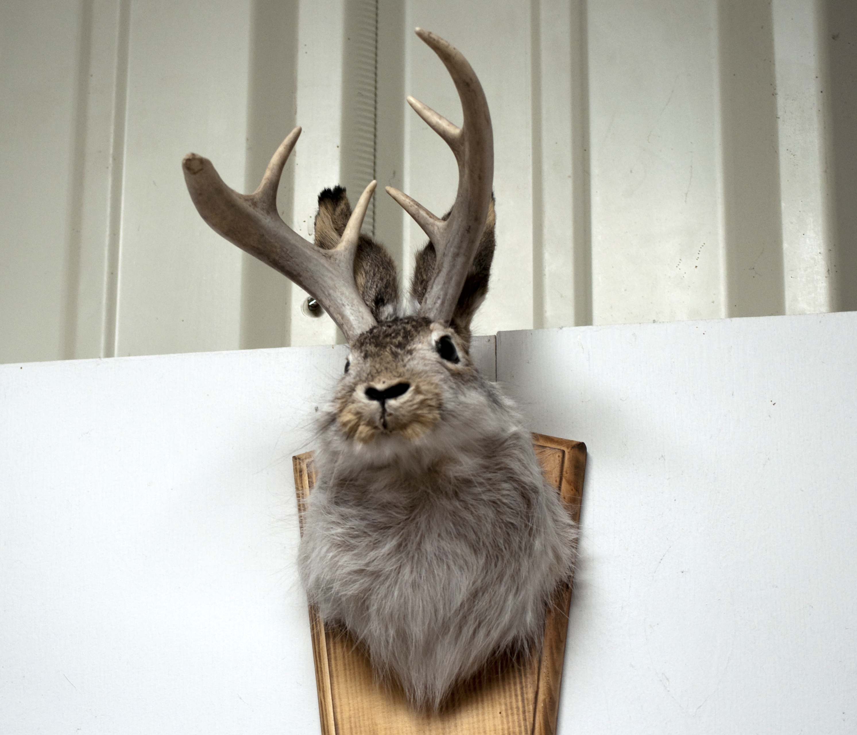 north america, road trip, chordata, mammalia, animalia, great plains, kansas, roadside america, prairie dog town, leporidae, lagomorpha, jackalope